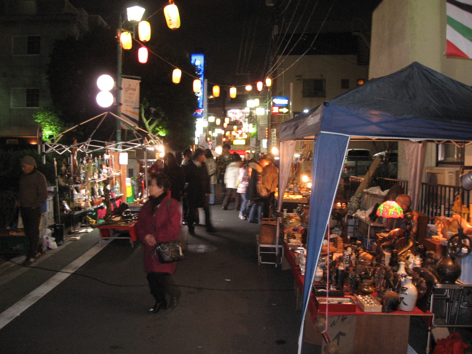 Seki no Boroichi from Nerima,Tokyo at December 9,10